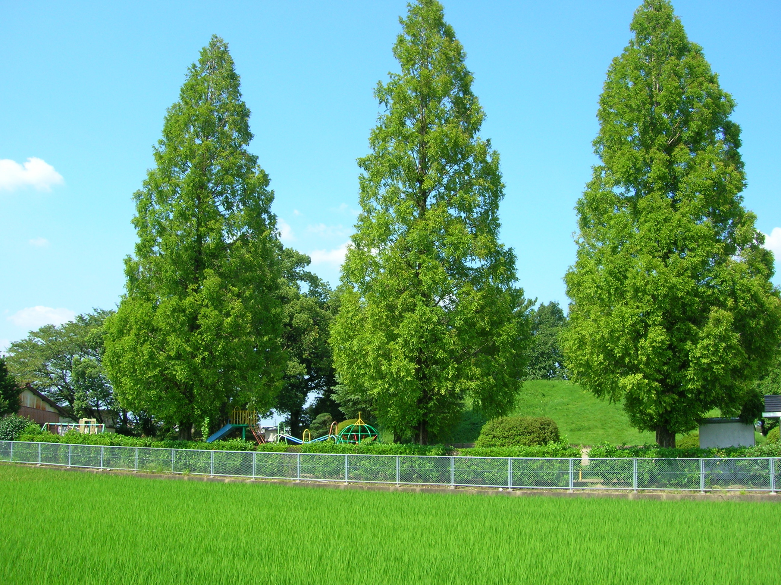 Somoto Futagoyama kofun. Loc: Konan city, Aichi Prefecture, Japan. 曽本二子山古墳・全景。 撮影場所 愛知県江南市曽本町二子